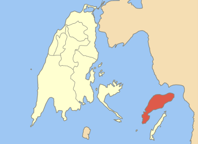 Locator map of Kalamos community (Κοινότητα Καλάμου) in Lefkada prefecture (Νομός Λευκάδας) in Greece.